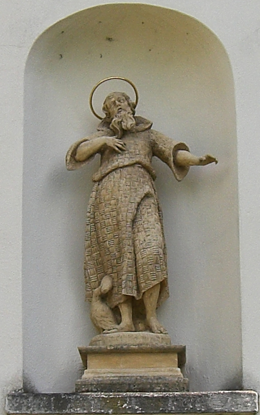 The statue was replicated in concrete by Brenzinger & Cie. - the originals can be found in Kirchzarten. Sculpturer: Matthias Faller.